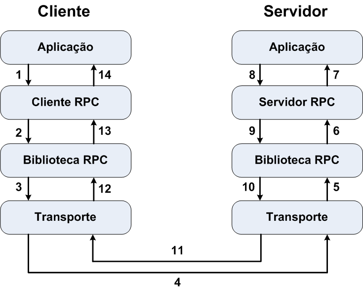 An illustration showing sequential steps of a remote procedure call.